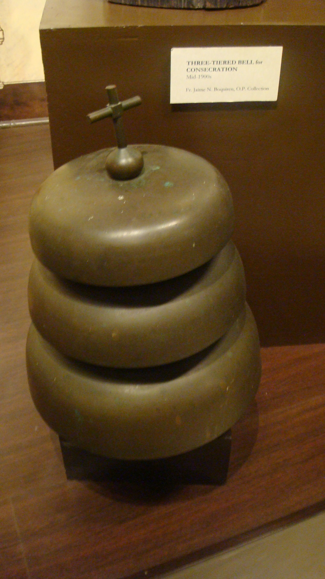 Mid-1900 Three-tiered bell for consecration (transubstantiation) (Fr. Jaime N. Boquiren, O.P. collection, Philippines)